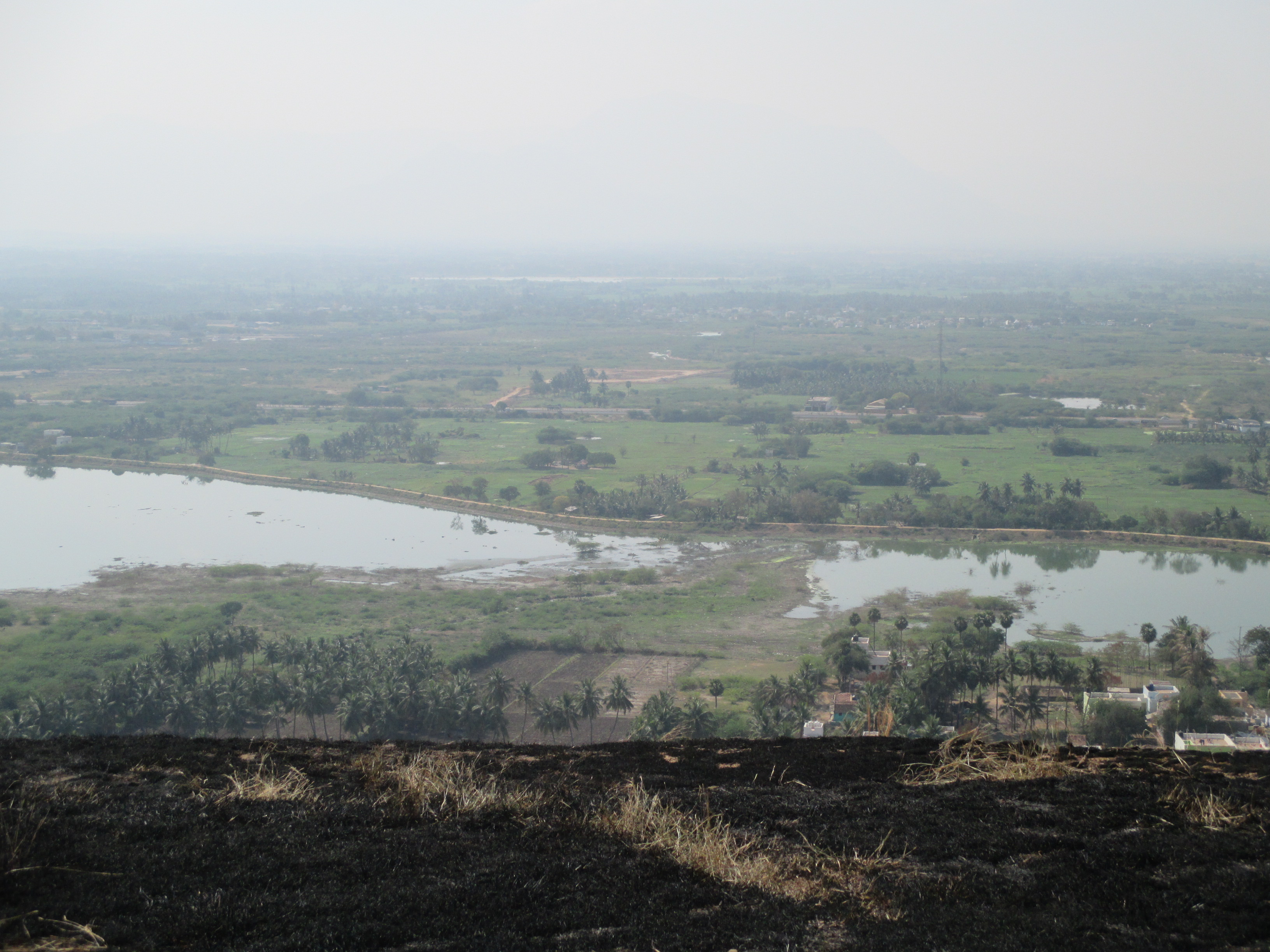 Dindigul